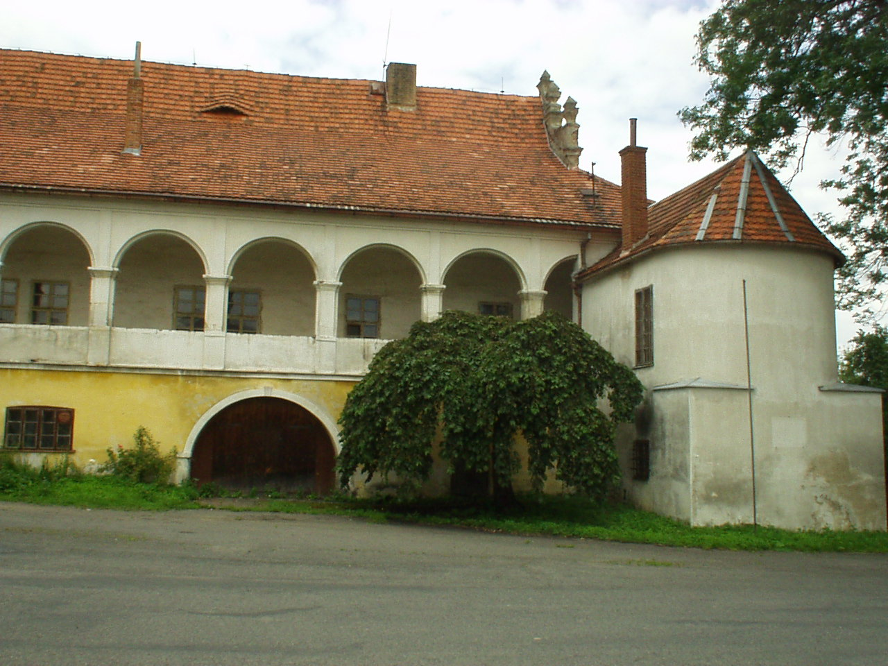 Château Mokrosuky